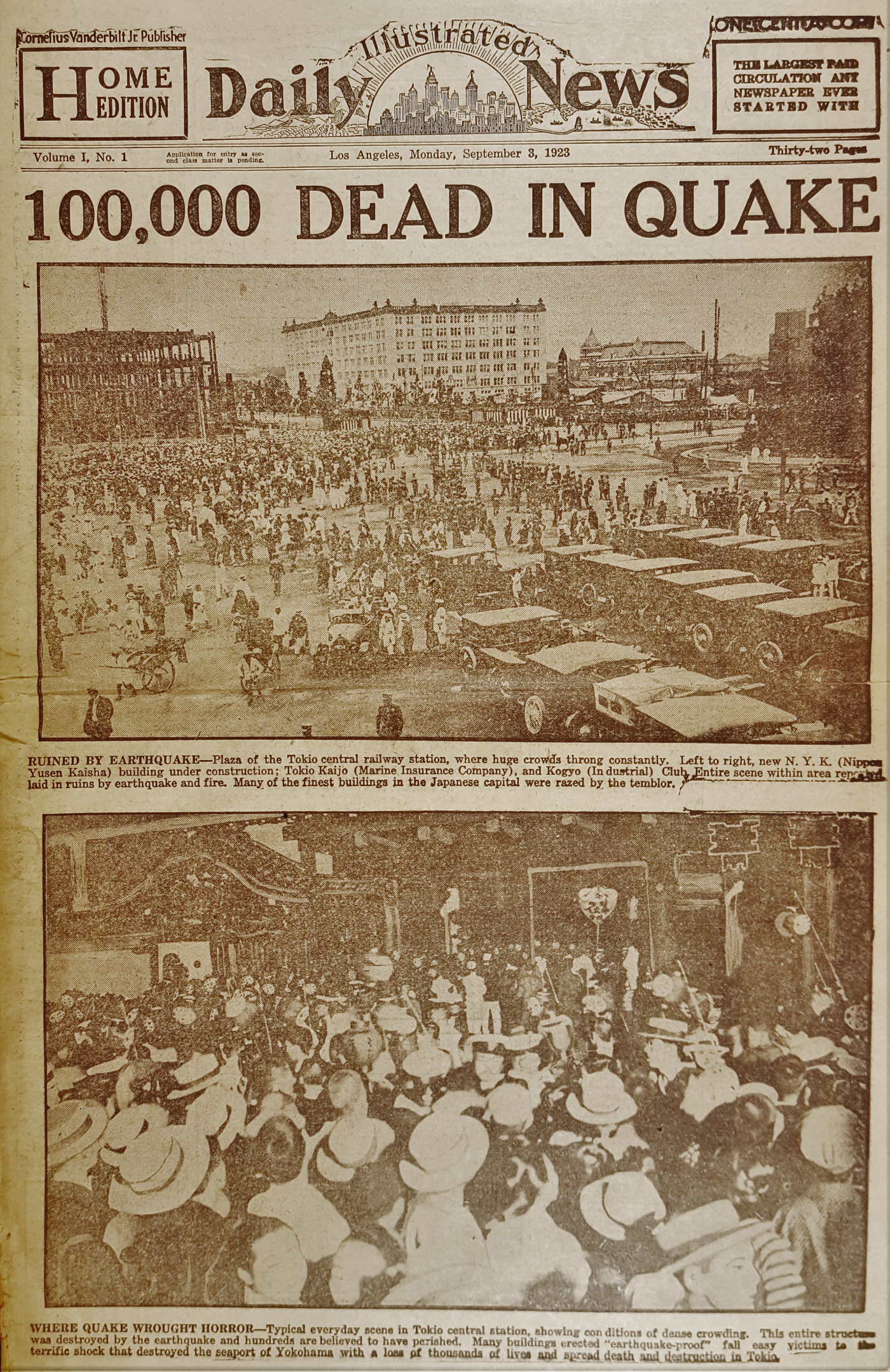 First edition of the Illustrated Daily News, September 3, 1923, page 1